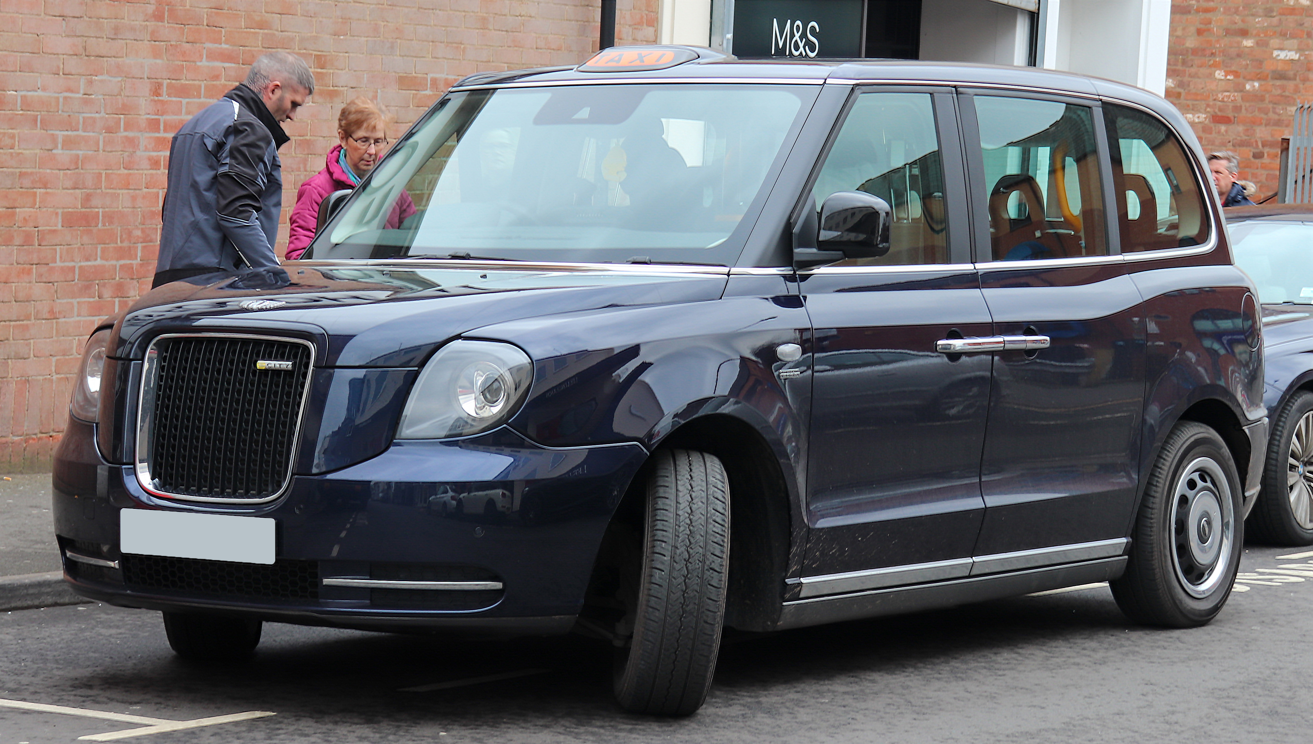 2019 LEVC TX Vista Comfort Plus 1.5 Taken in Leamington Spa